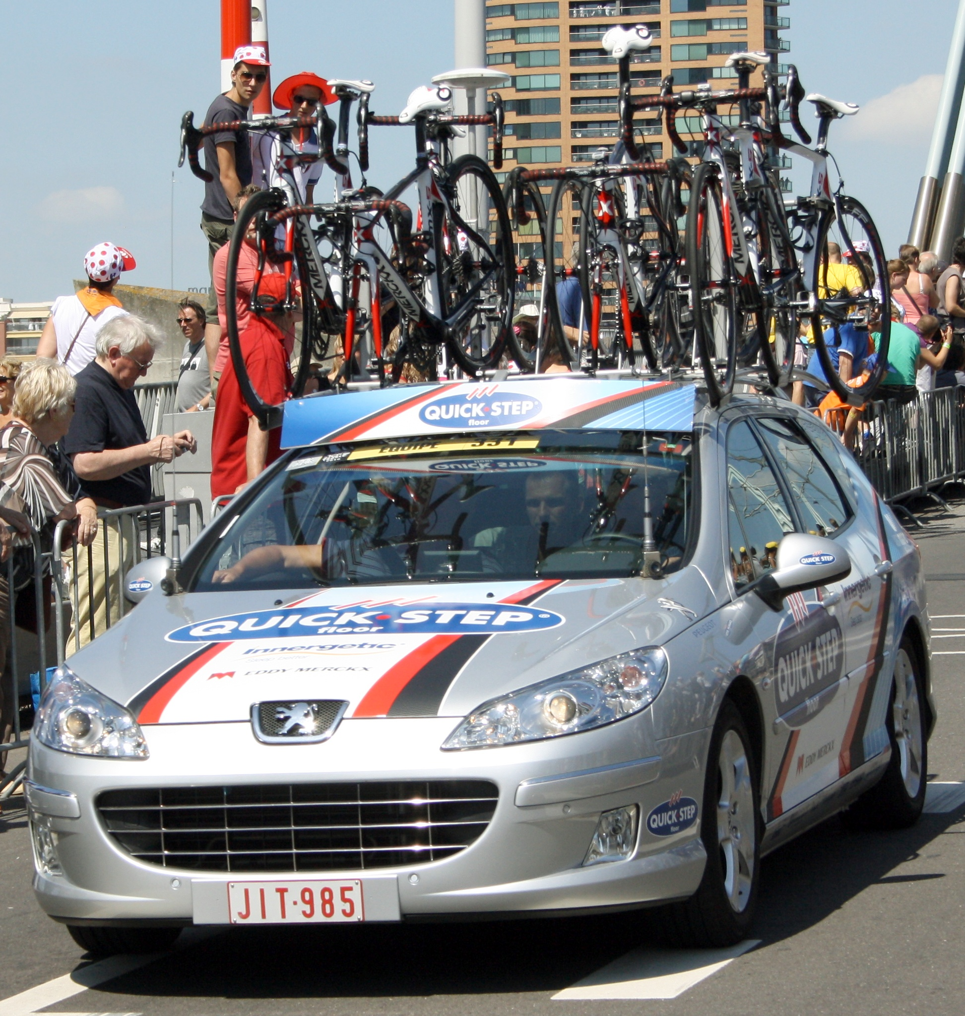 Quick Step team car at the start of the first stage of the 2010 Tour de France in Rotterdam